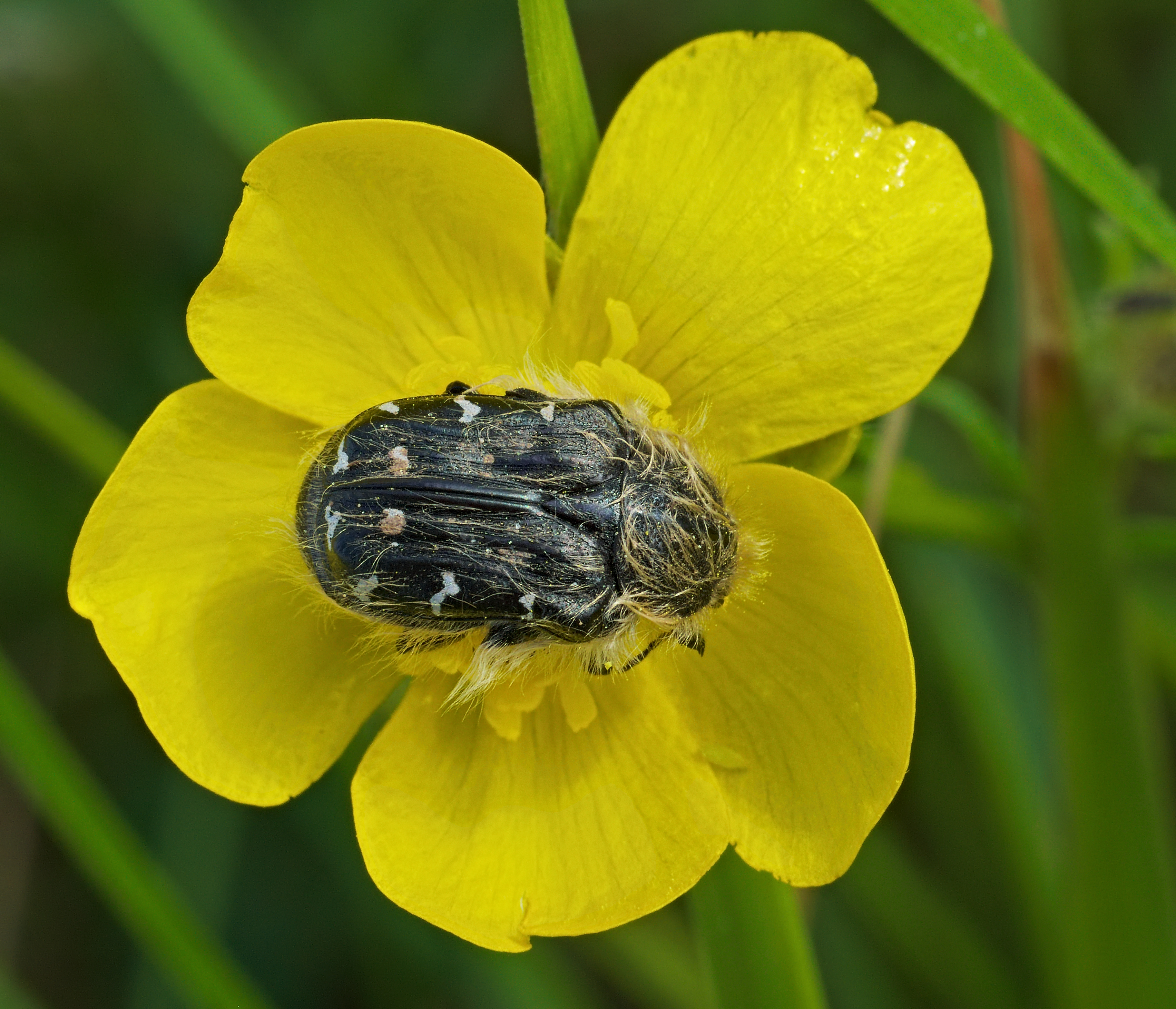 Tropinota hirta. Taken in the Schwetzinger Wiesen - Edinger Ried, Baden-Württemberg, Germany.